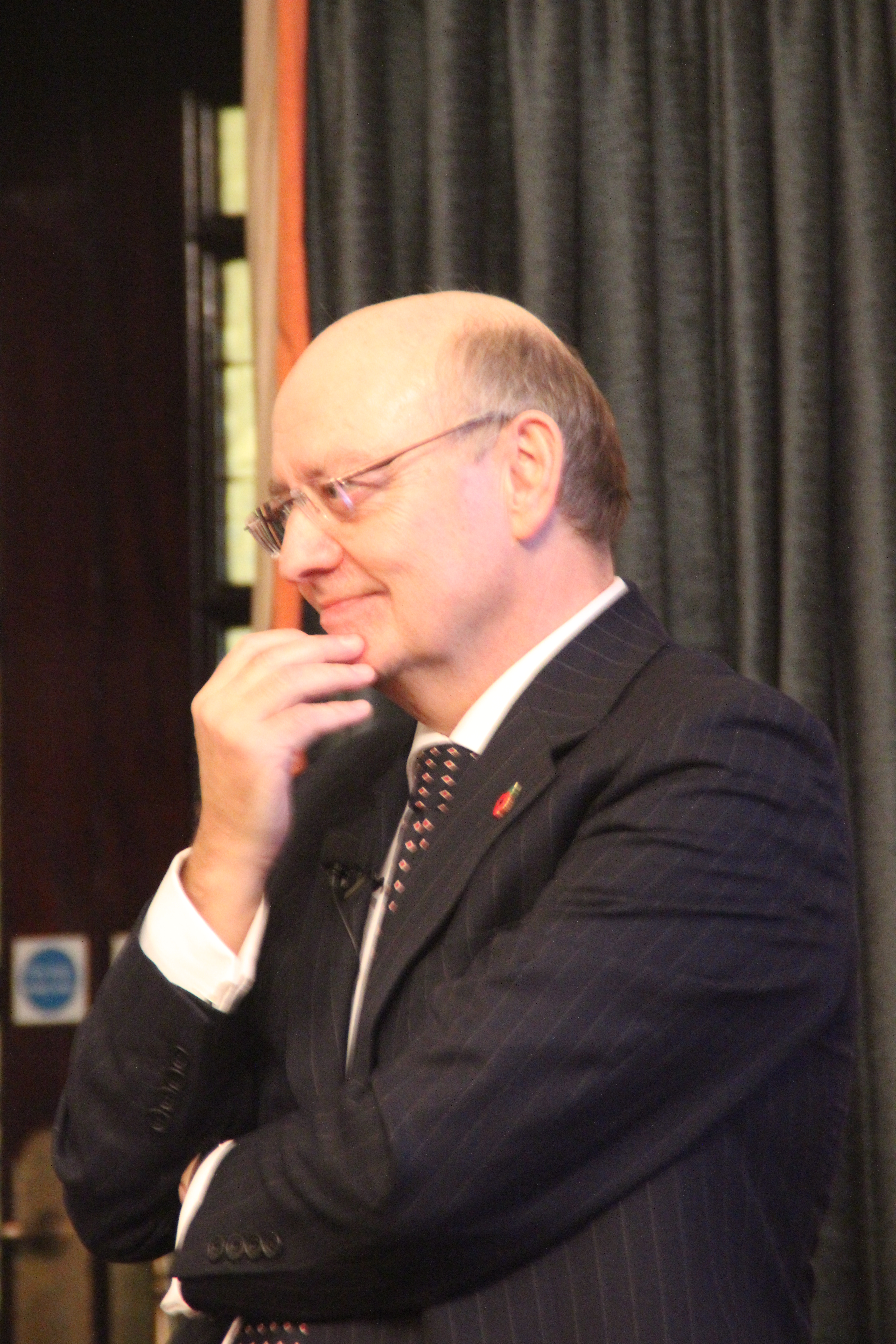 Peter Hansford talking at London Constructing Excellence Club event on 11 November 2014.